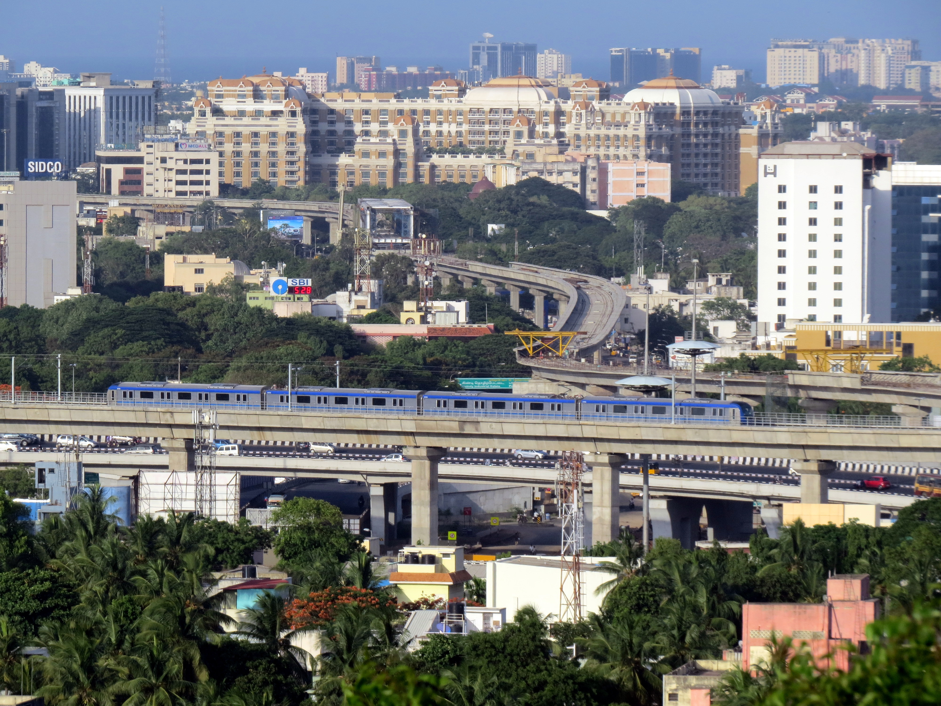 Chennai metro train crosses Kathipara interchange during trial run